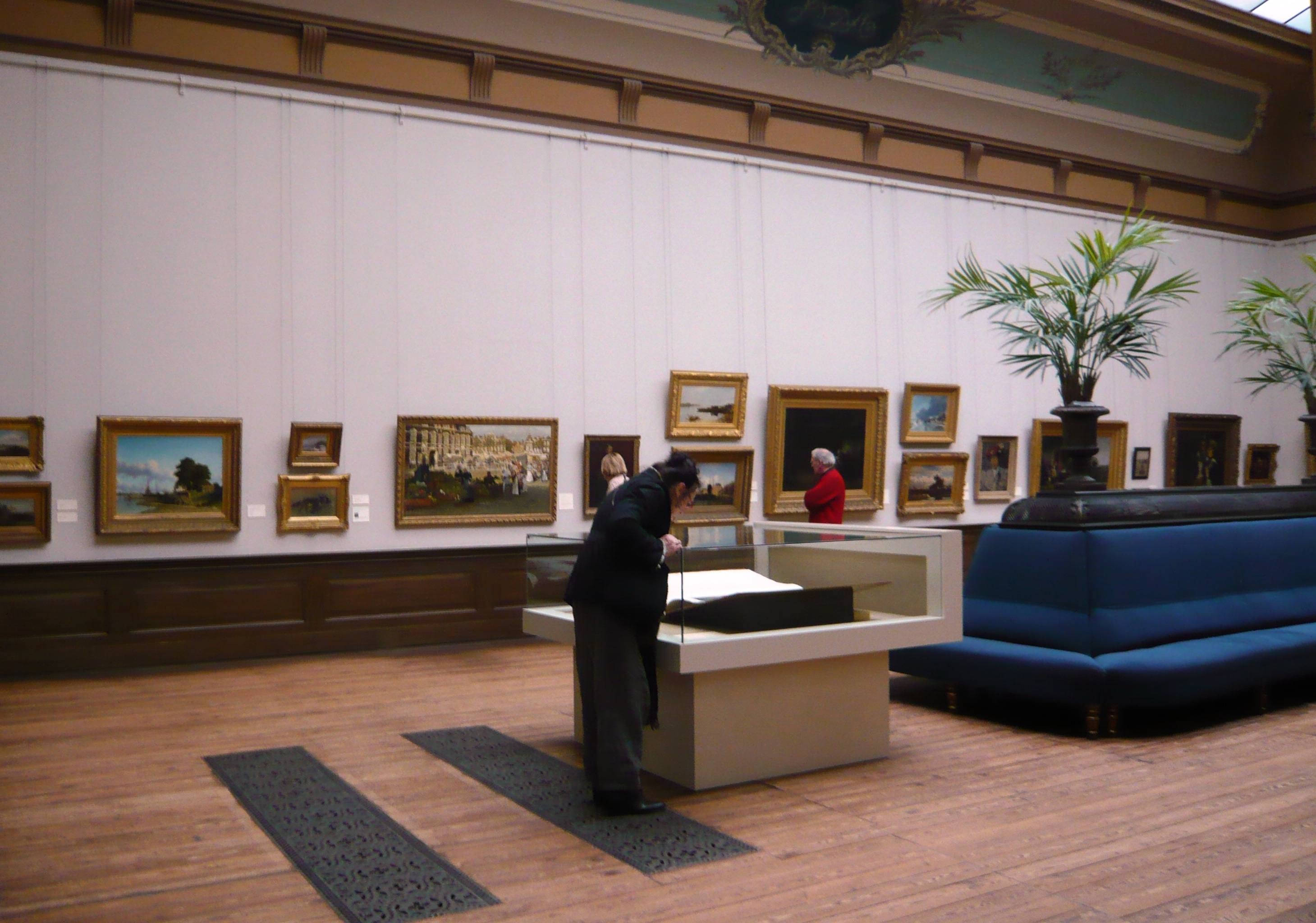 Teylers Museum painting room (second of two) with temporary display case for the Birds of America book. In the book cabinet (other room) older books are on display with engraved plates of birds, but none of them are as large as the Audubon book.